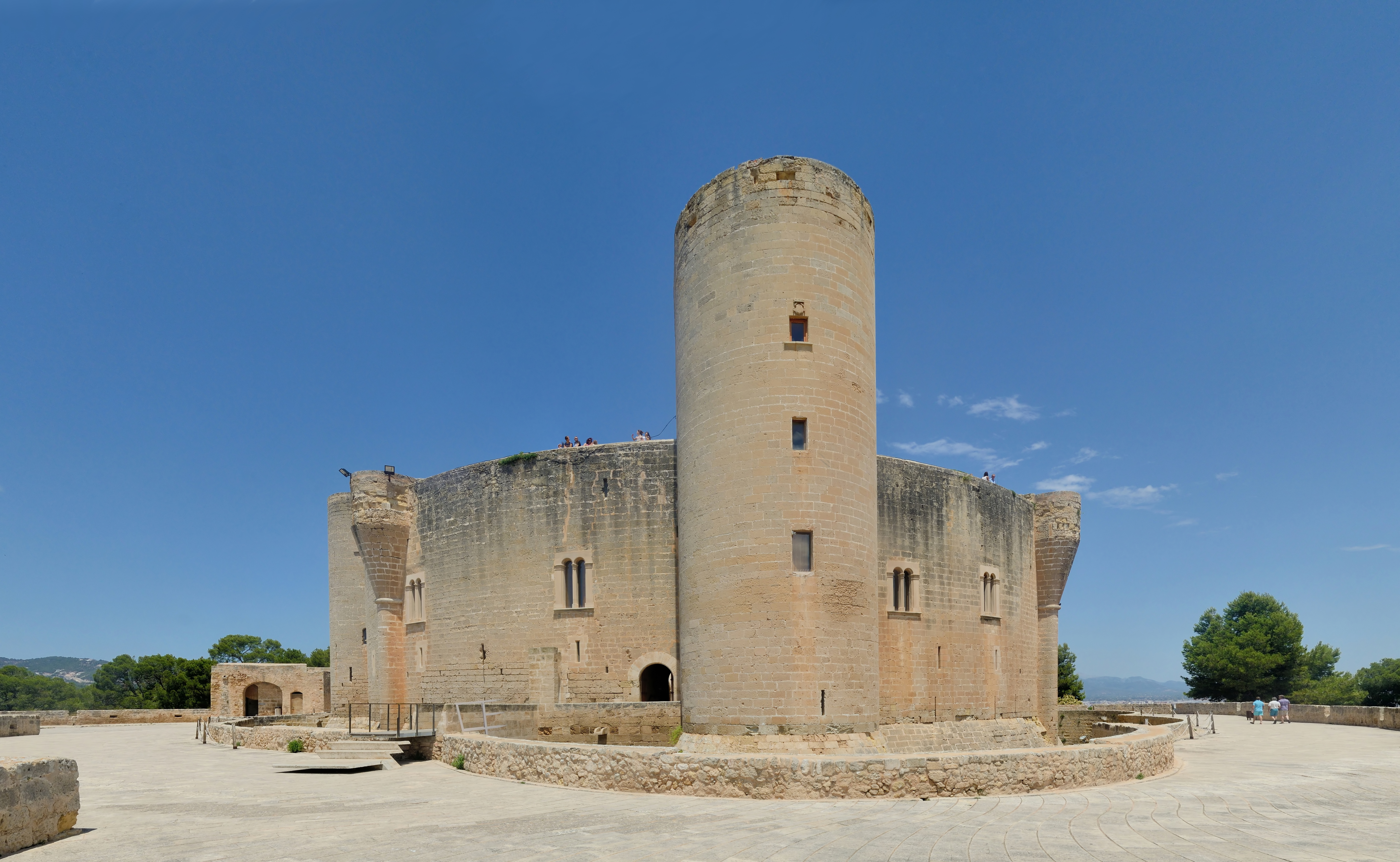 Palma de Mallorca: Castell de Bellver